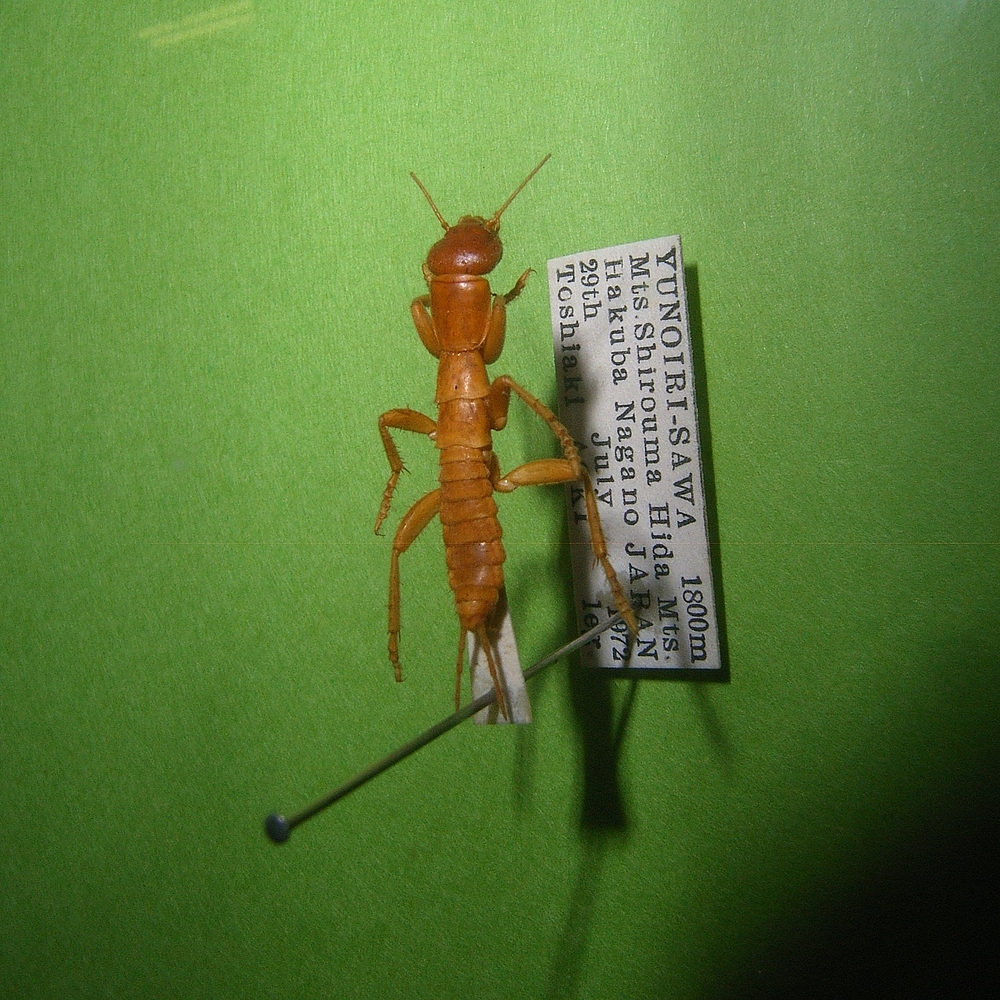 Location: Hakuba, Nagano, Japan ガロアムシ grylloblattid Regnum: Animalia • Phylum: Arthropoda • Classis: Insecta • Ordo: Grylloblattodea • Familia: Grylloblattidae • Genus: Galloisiana Wikispecies has an entry on: Galloisiana nipponensis Species Galloisiana nipponensis (Caudell et King, 1924) 動物界 節足動物門 昆虫綱 ガロアムシ目（非翅目） ガロアムシ科 Galloisiana属 NCBI Taxonomy ID:73580